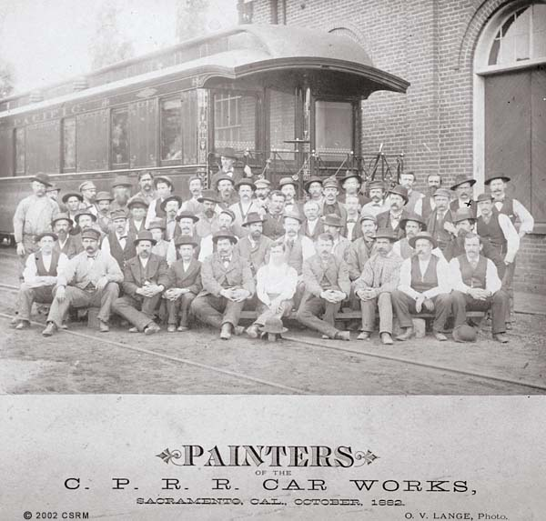 Group portrait of Central Pacific Railroad Sacramento Shops employees: painters, by Oscar V. Lange, 1882. The wood passenger car behind the men is Leland Stanford's private car "Stanford."